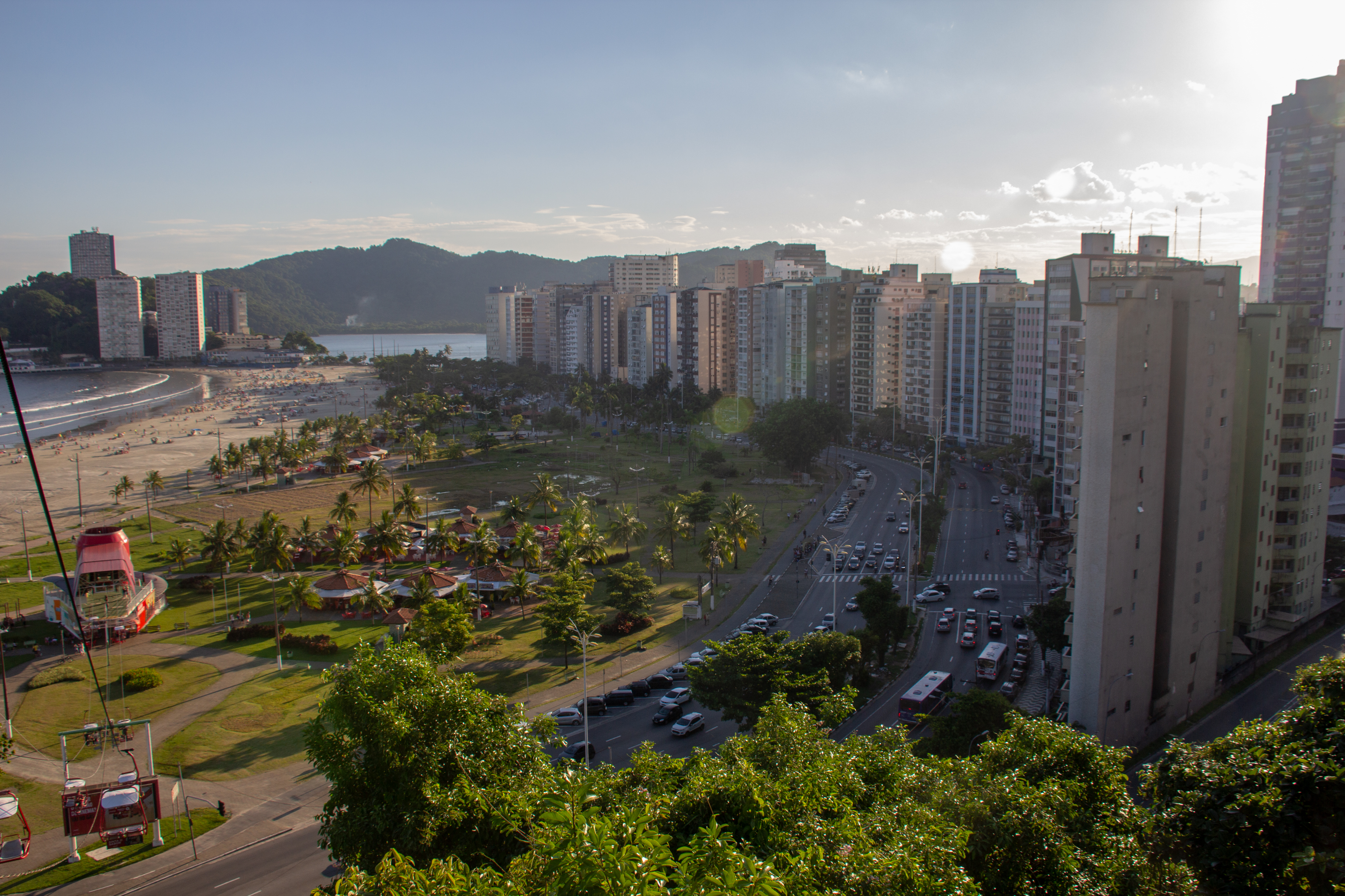 São Vicente Chairlift